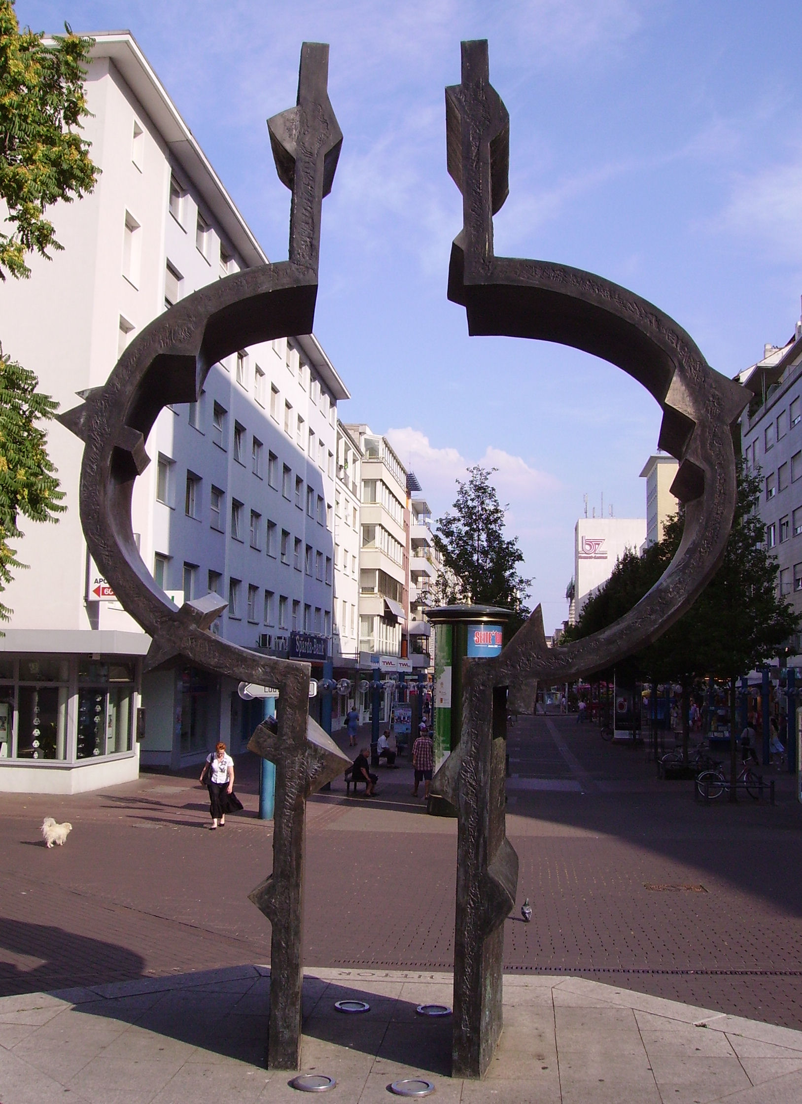 Sculpture (1979) by Wolf Spitzer in Ludwigshafen, Germany